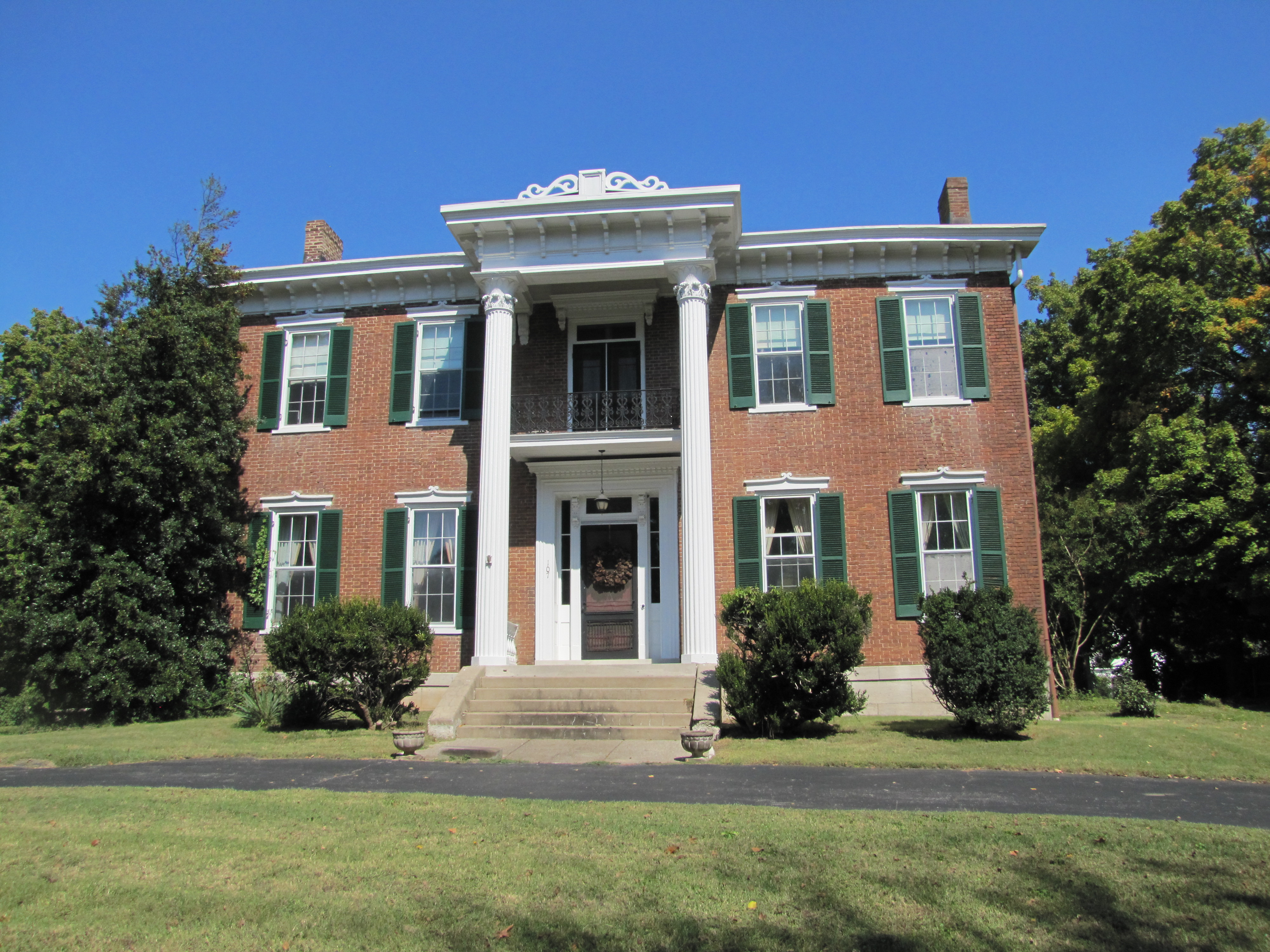 Clarksville, TN. Built in 1850 by county judge Thomas W. Wilson. Now a private residence.